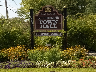 Guilderland, New York Town Hall